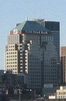 Fifth Third Center